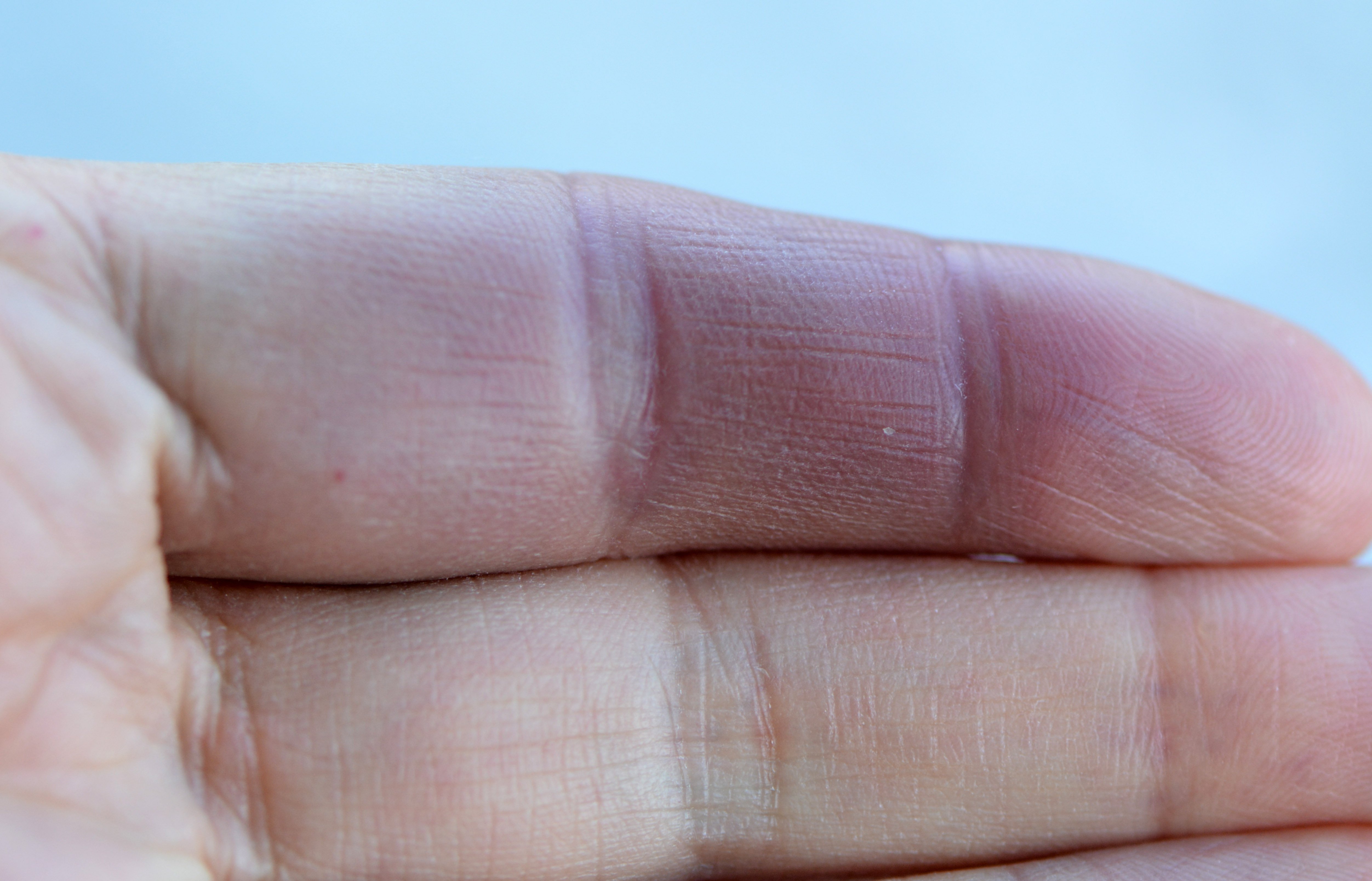 Paroxysmal hand hematoma (also known as "Achenbach syndrome") is a skin condition characterized by spontaneous focal hemorrhage into the palm or the volar surface of a finger, which results in transitory localized pain, followed by rapid swelling and localized blueish discoloration